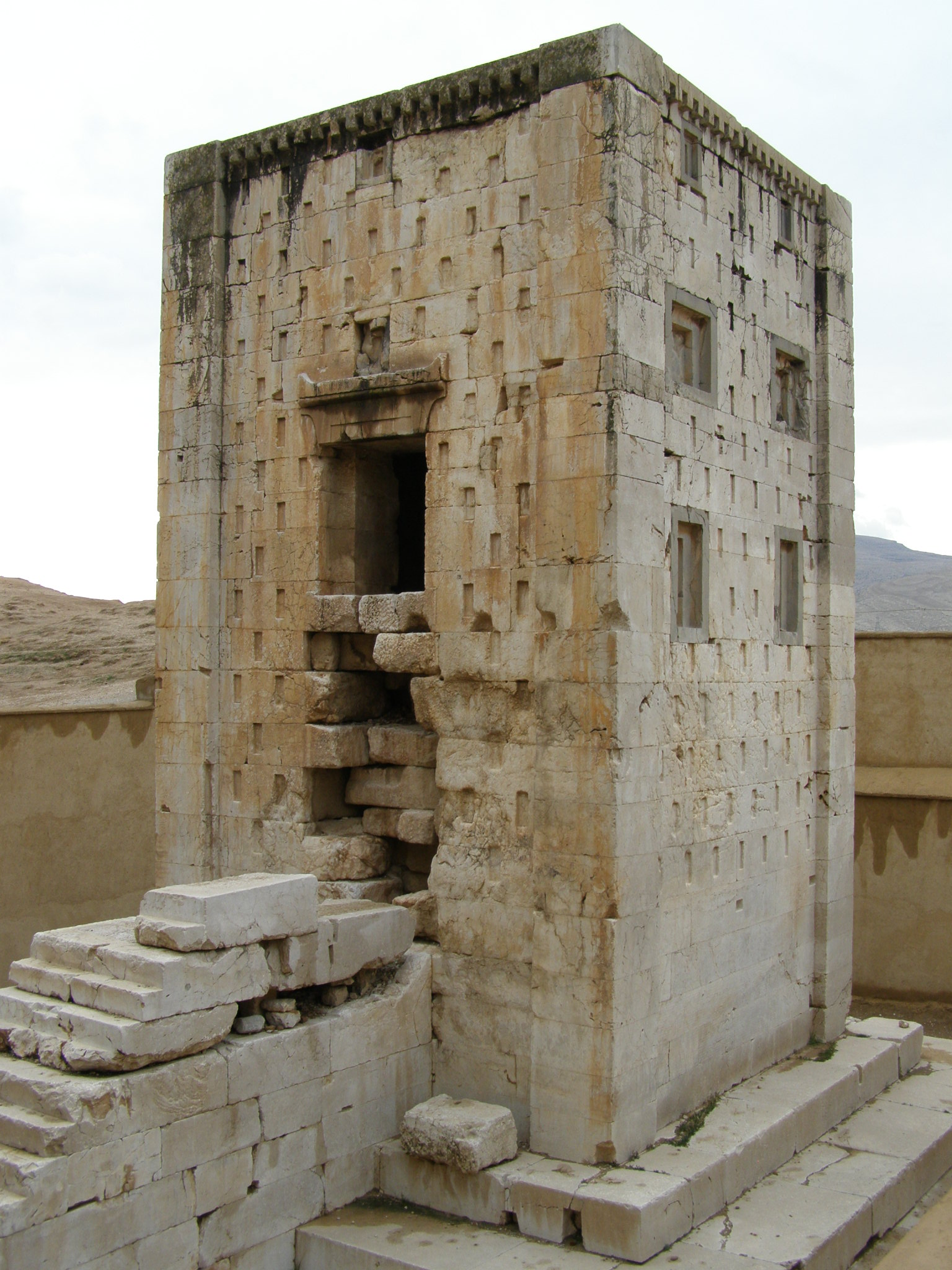 This Zoroastrian temple located in Naqsh e Rostam near Shiraz is know as Ka'bah of Zoroaster. It was built during Archaemenid period.